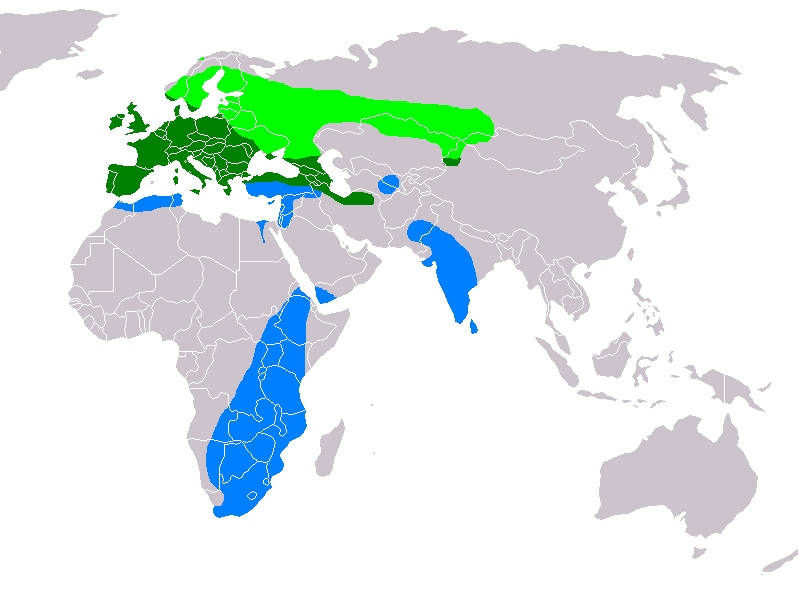 Distribution of Buteo buteo nesting area resident all year wintering area